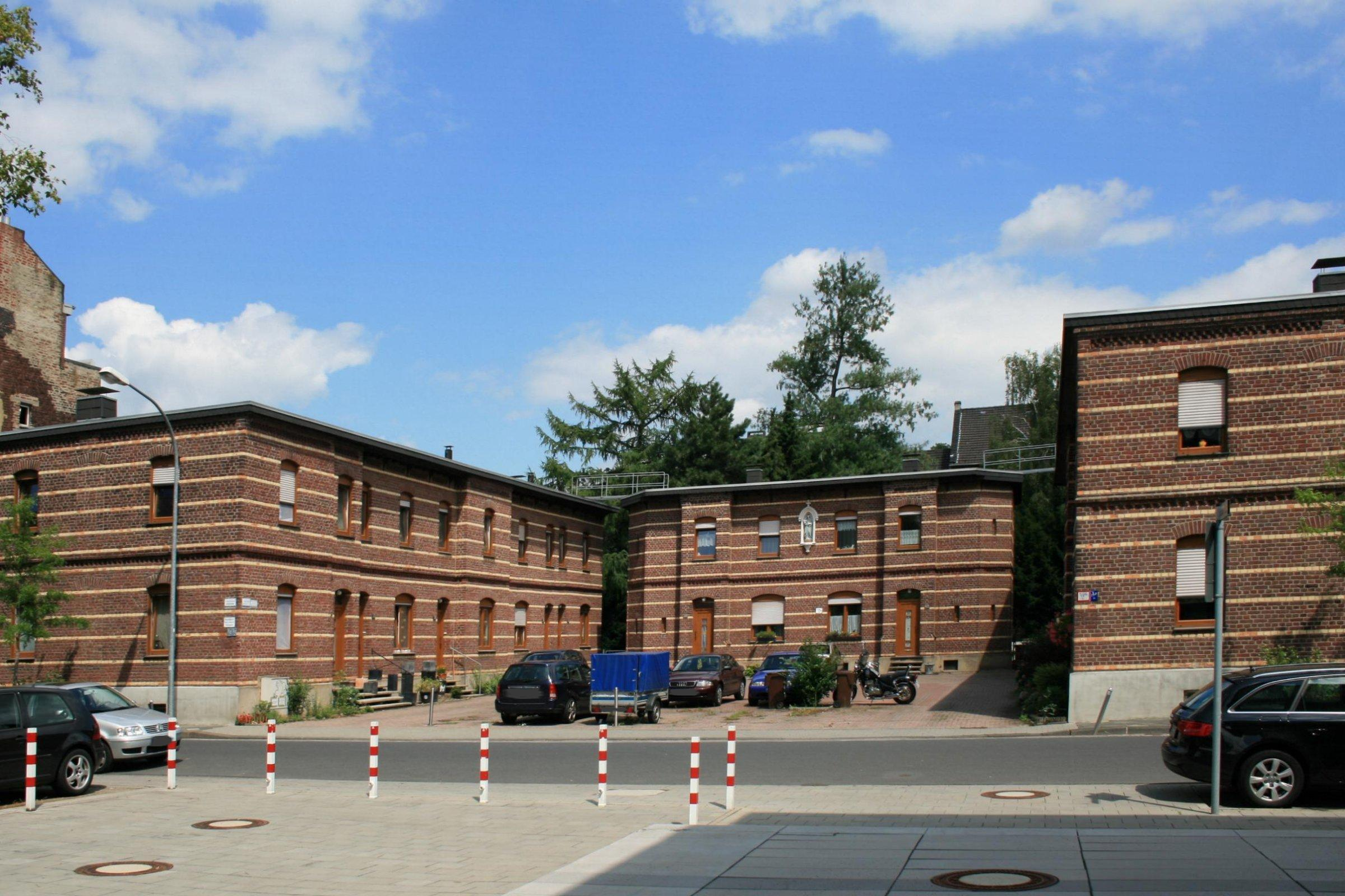 Cultural heritage monument No. K 085 in Mönchengladbach